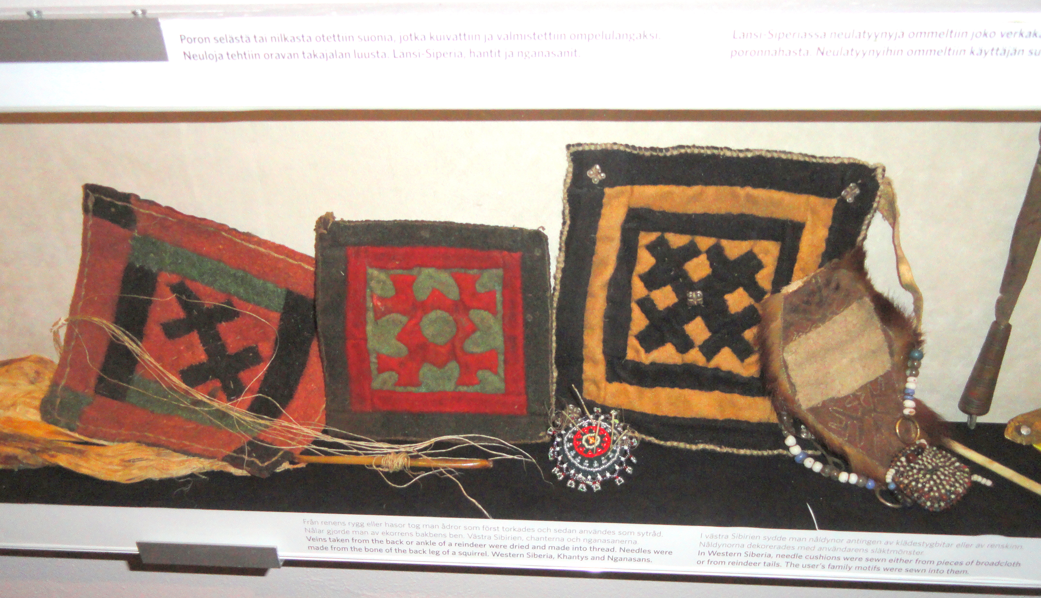 Clothing exhibit in the Museum of Cultures, Helsinki, Finland.